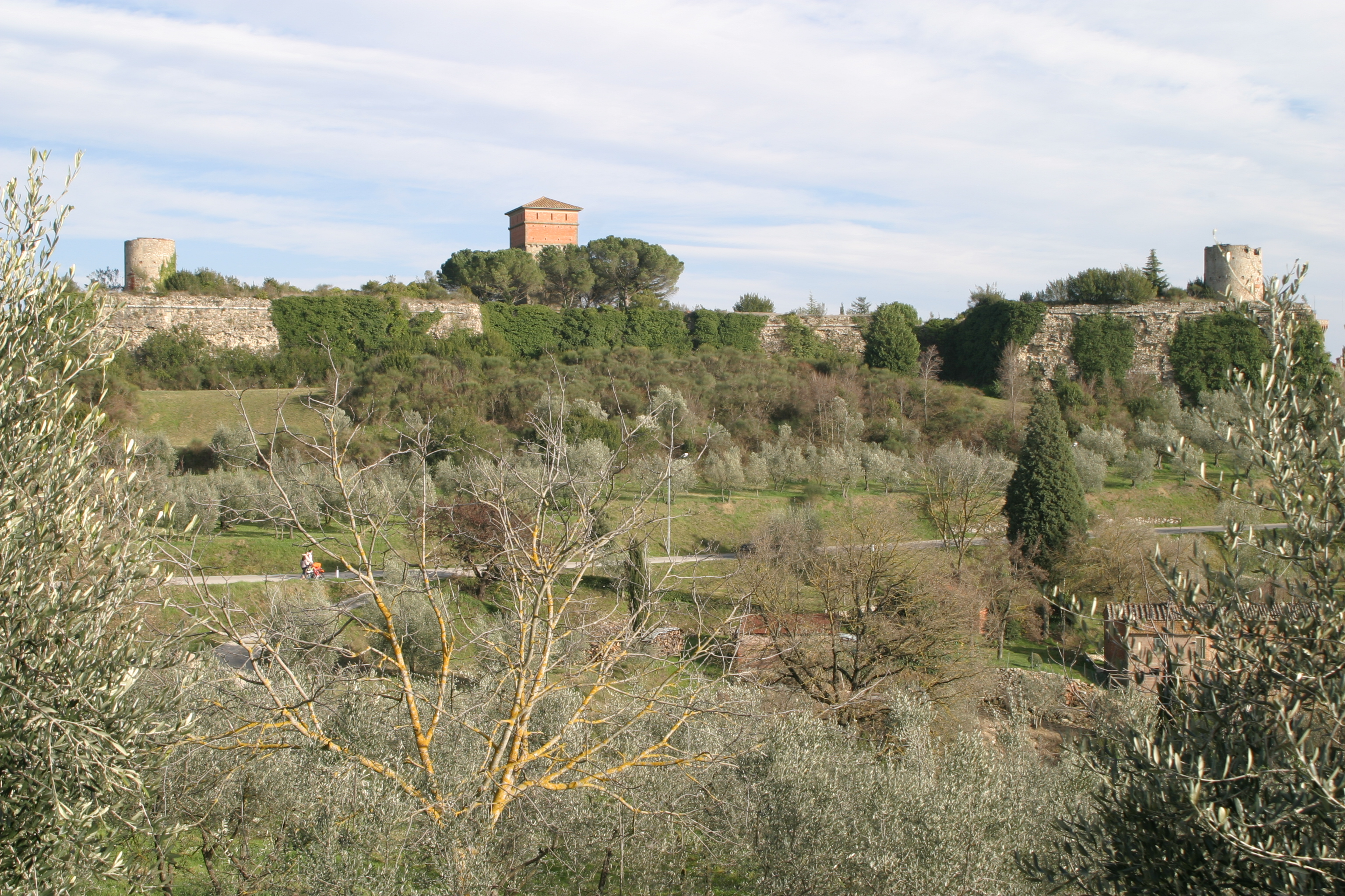 Lucignano castle, from the cemetery